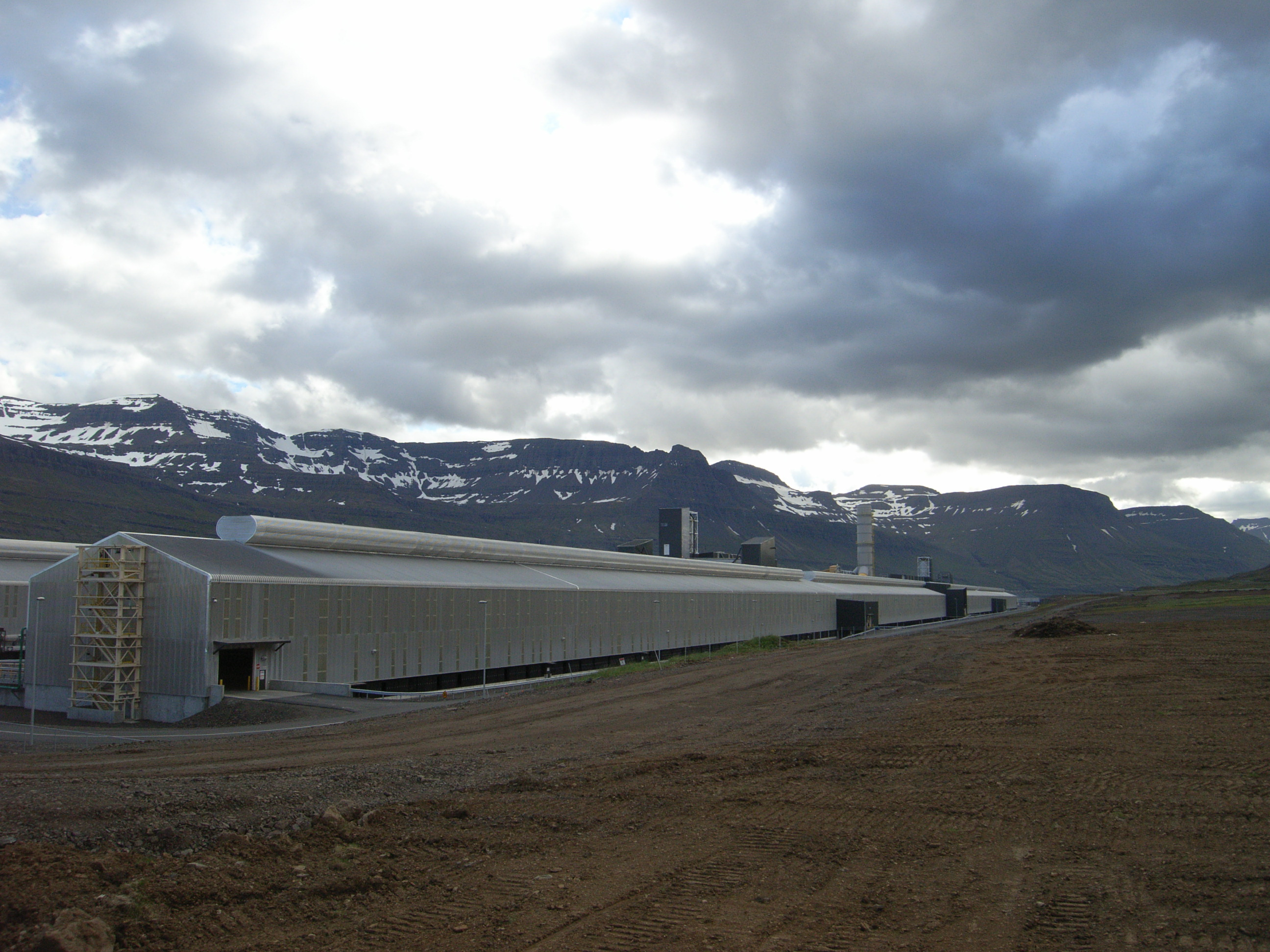 Alcoa aluminium smelter in Reydarfjördur, Iceland.